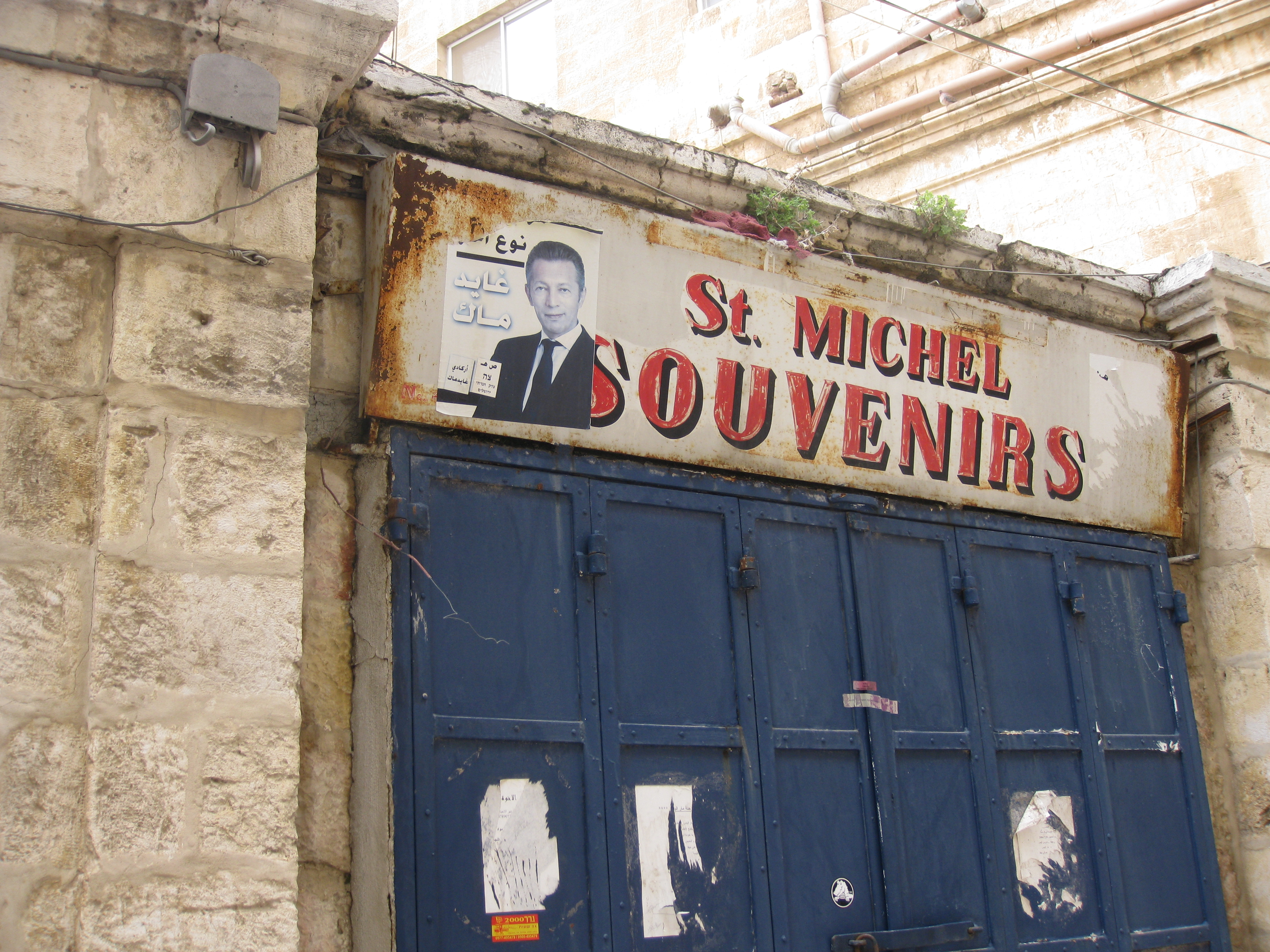 Old Jerusalem, The Christian Quarter - Poster in arabic with picture of Arcadi Gaydamak. Social Justice (Hebrew: צדק חברתי, Tzedek Hevrati) is a political party in Israel headed by Russian-Israeli businessman, Arcadi Gaydamak.